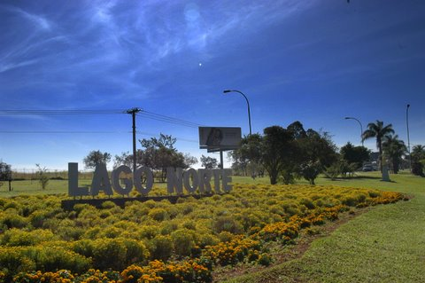 north lake entrance